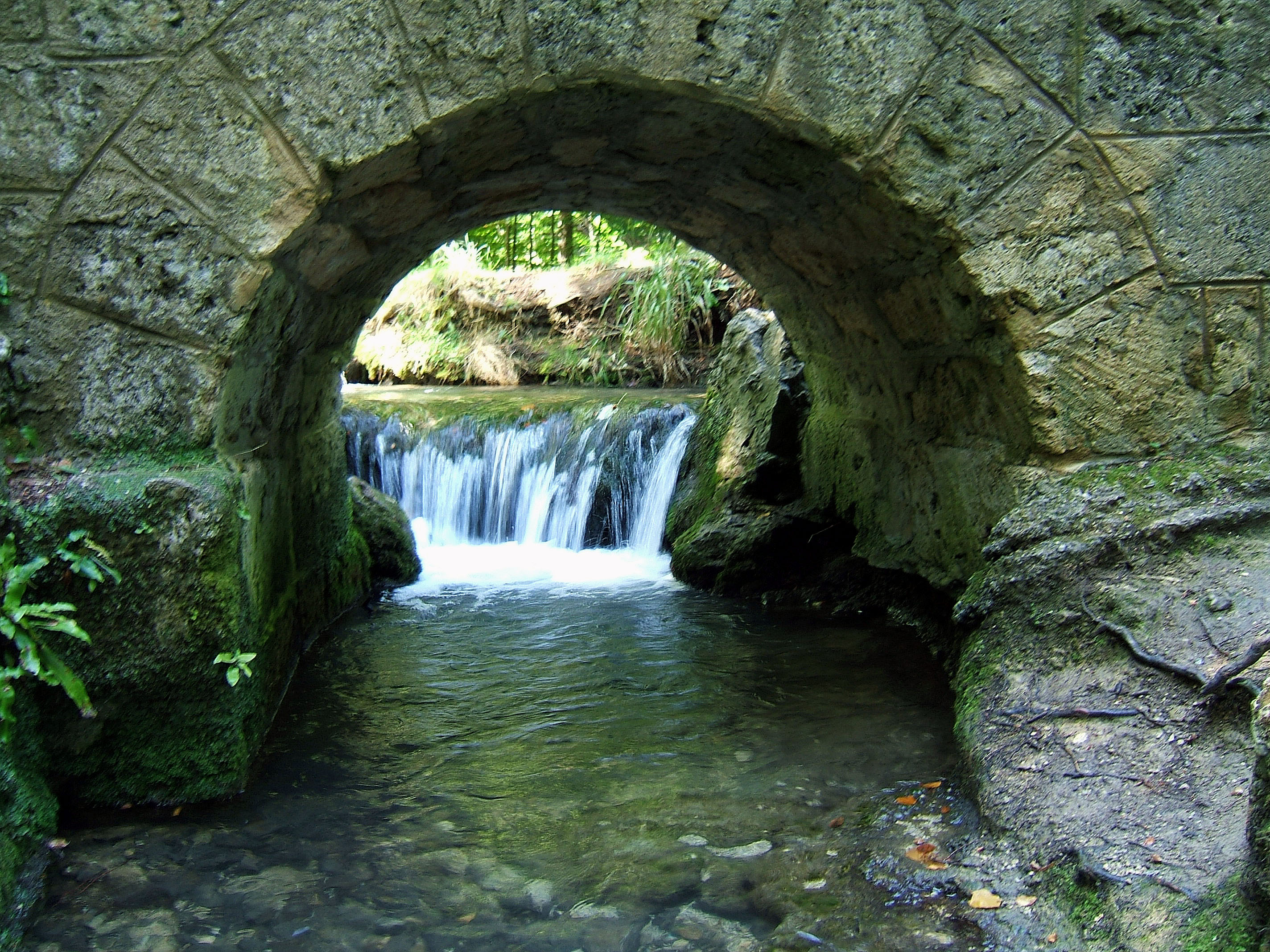 Waterfall near Bad Urach, Germany